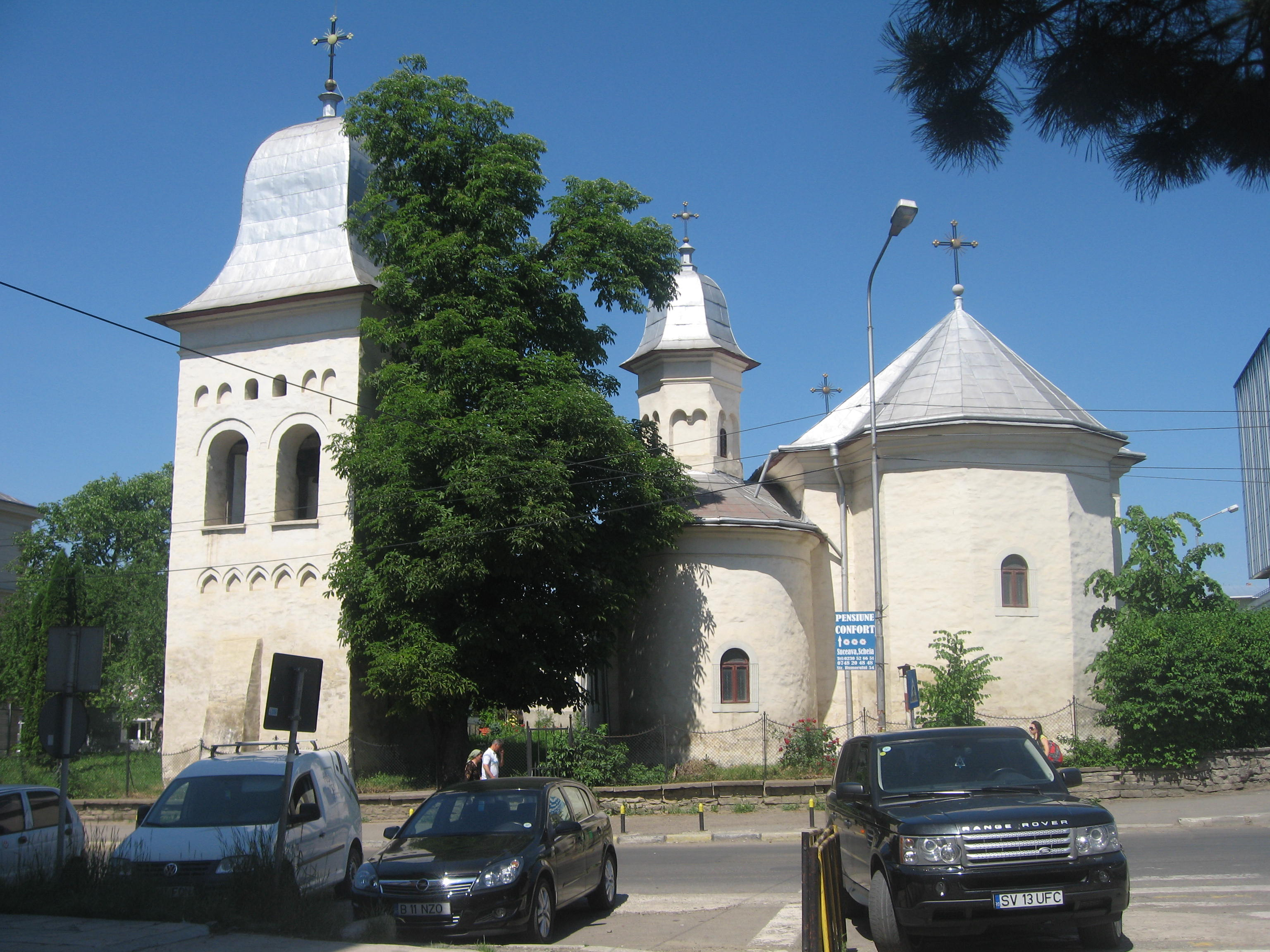 Holy Cross Armenian Church in Suceava.